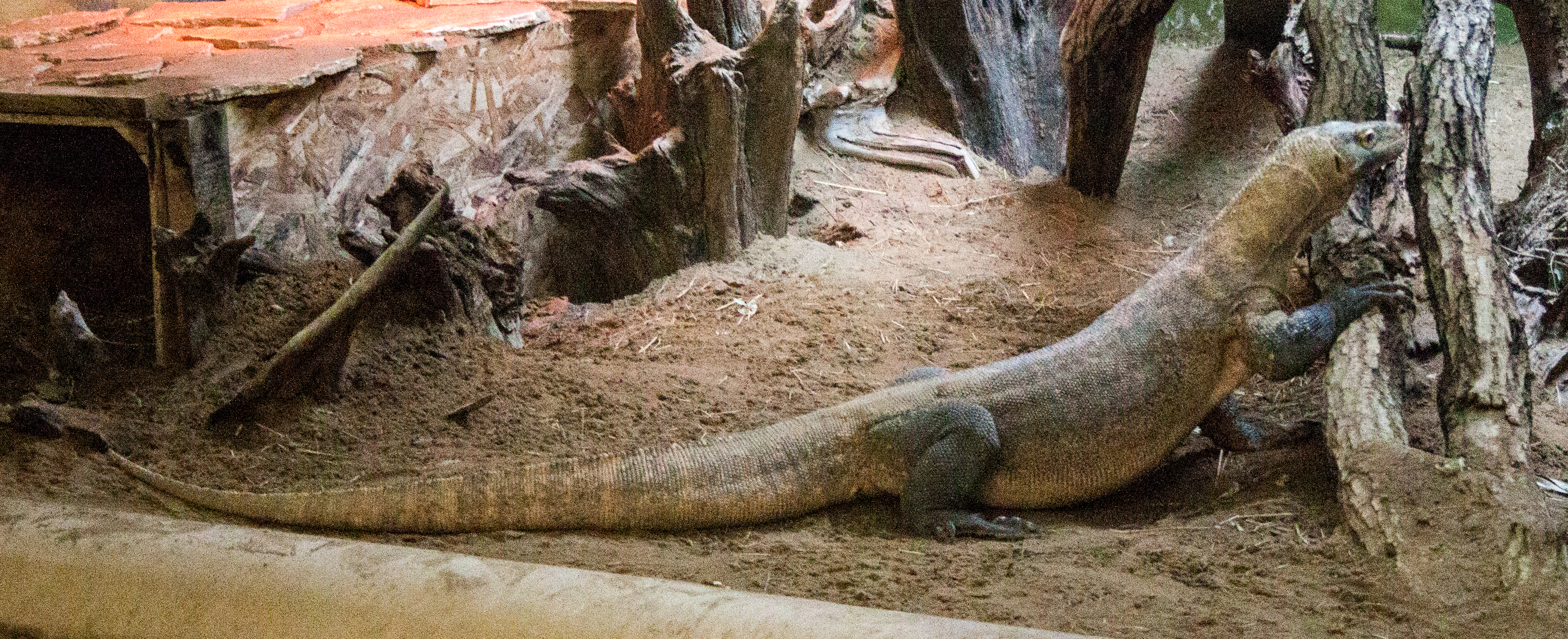 Varanus komodoensis in Nyíregyháza Zoo